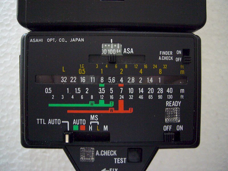 Calculation slider on the back of a Pentax AF-280T flash, set to 100 ASA. Own picture Caseman, march 2007.